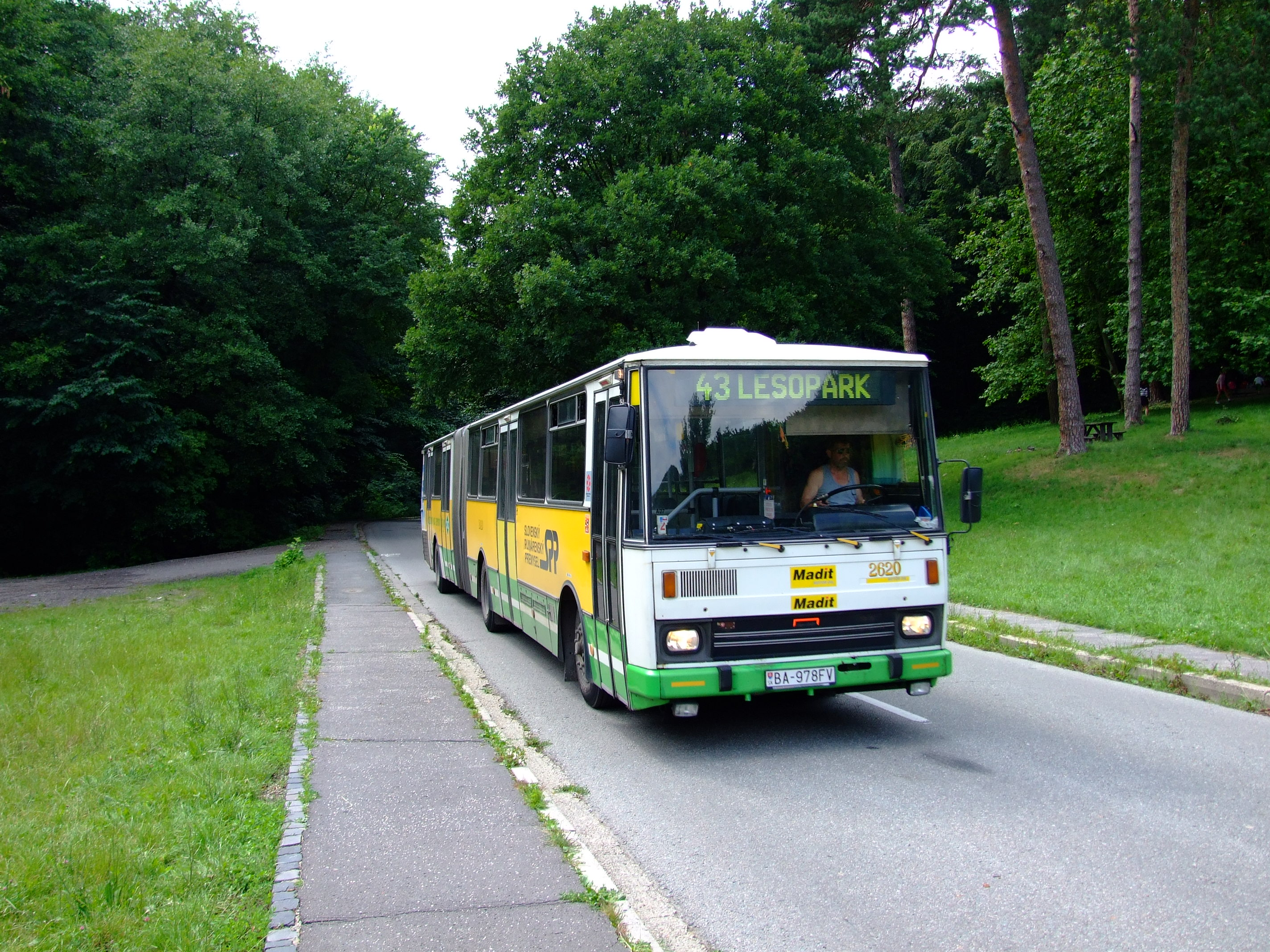 Public transport bus in Bratislava, SKhelp